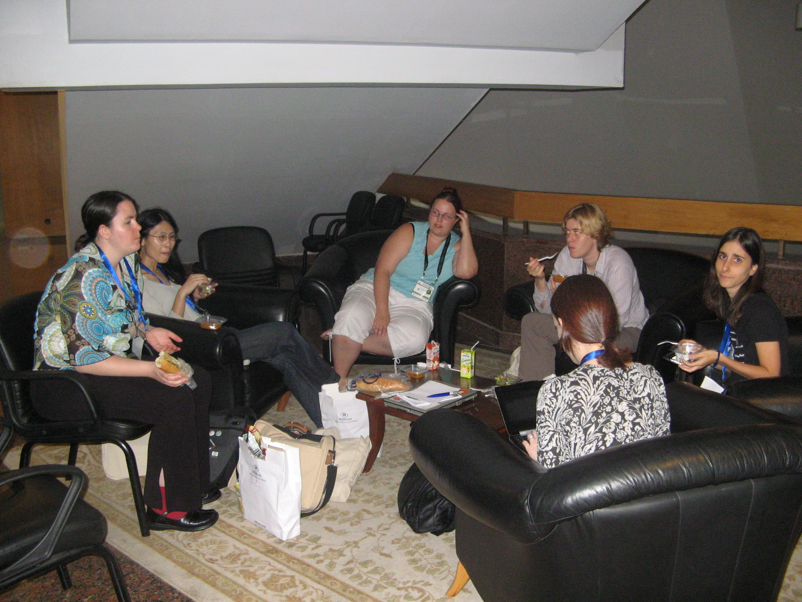 Wikichix meeting #2, at the Wikimania 2008 conference in Alexandria, Egypt: Brianna, Kizu Naoko, Finne, Nina, Maria and Angela Beesley Starling